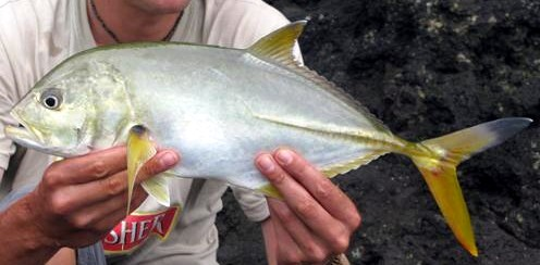 Caranx heberi taken from shore in Oman